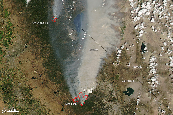 Rim Fire and American Fire in California 2013